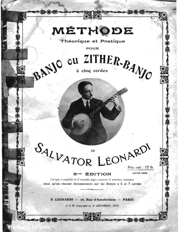 This is the cover of an instruction book by Salvador Leonardi, with his portrait, published in 1914.